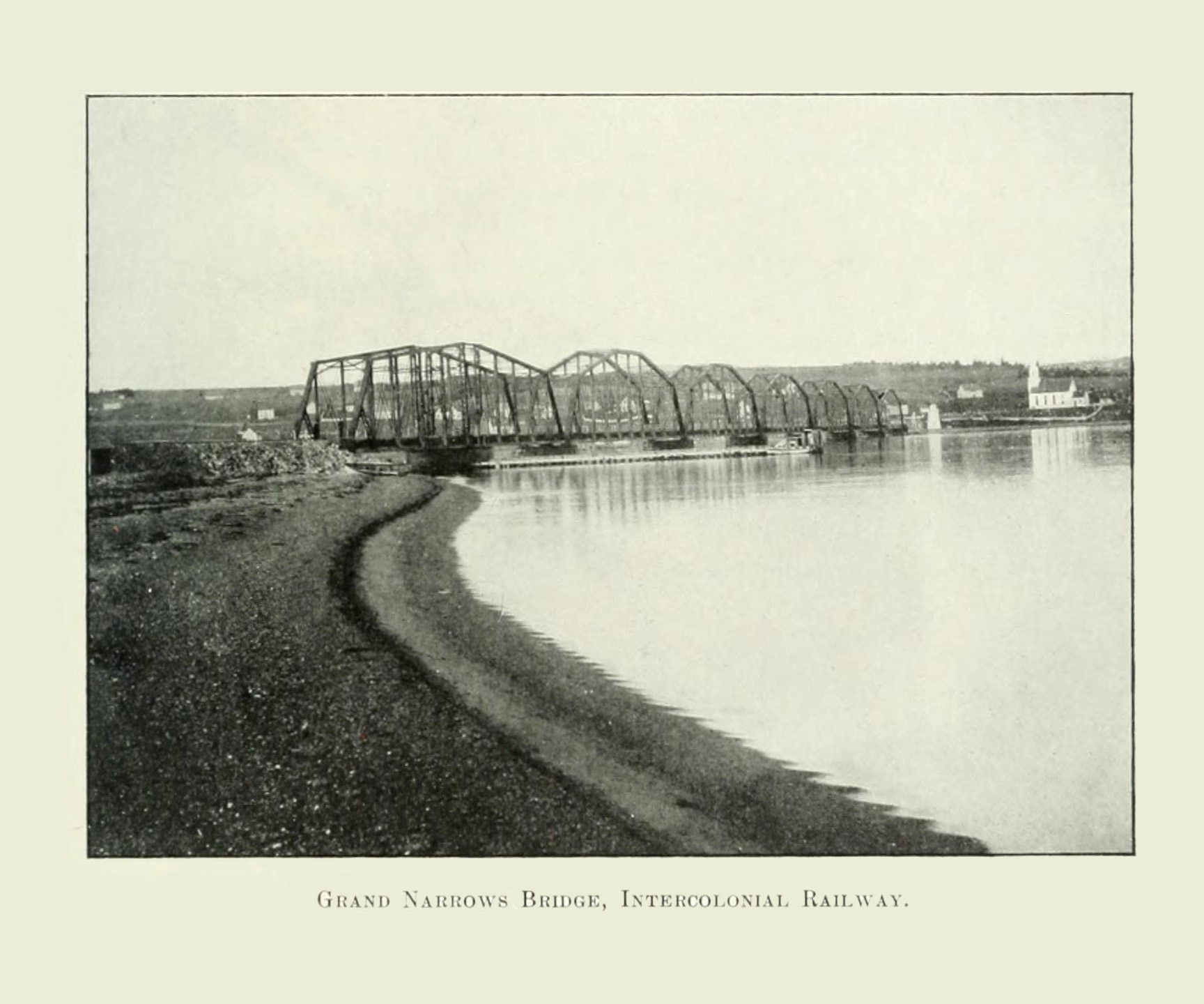 Grand Narrows (Bras d'Or Lake) Railway Bridge at Iona, Cape Breton, Nova Scotia, ca 1903